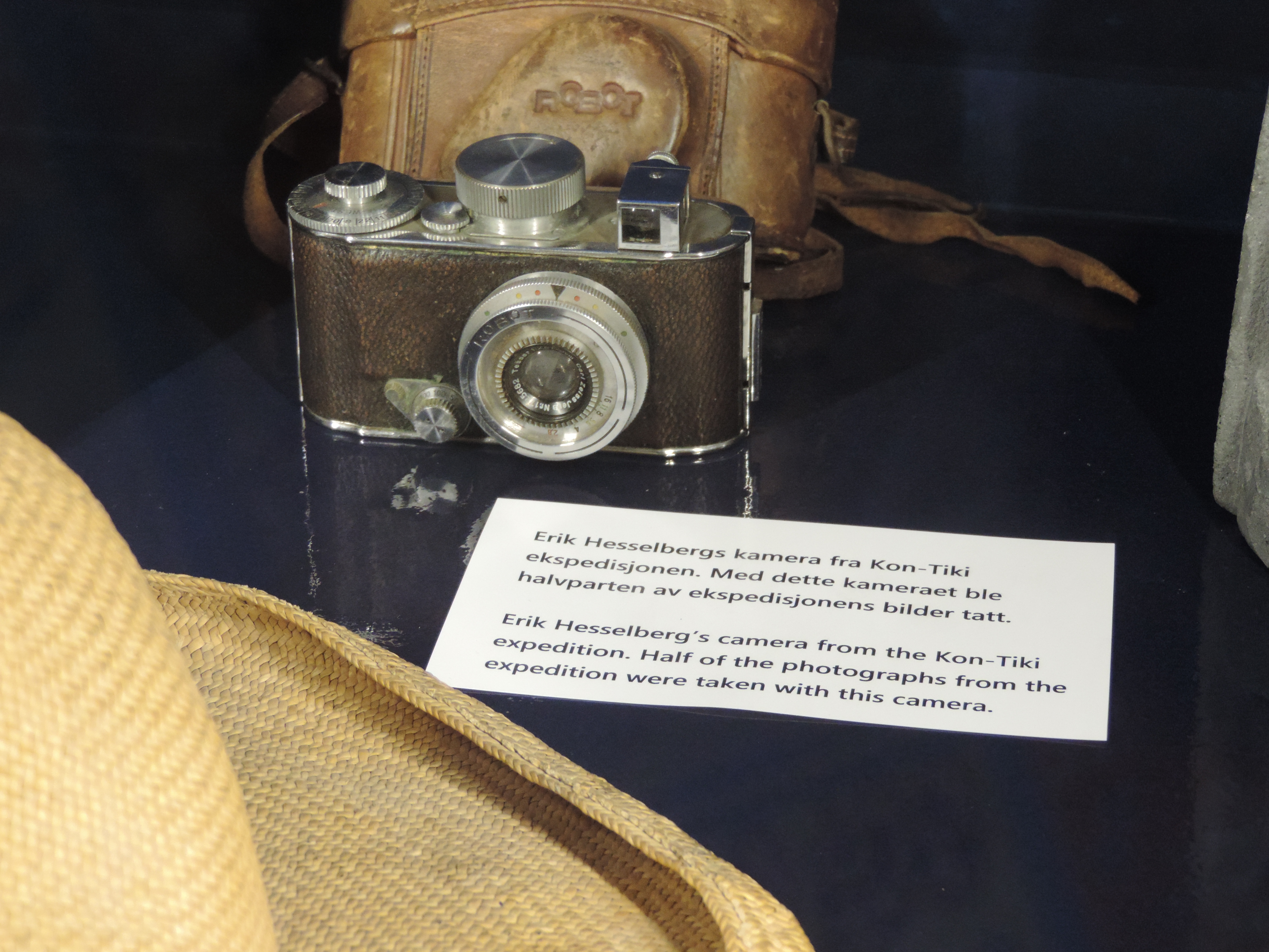 Erih Hasselberg's camera from the Kon-Tiki expedition; half of the photographs from the expedition were taken with this camera. Exhibit of the Kon-Tiki Museum